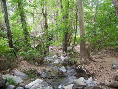 The Troodos Mountains, Cyprus